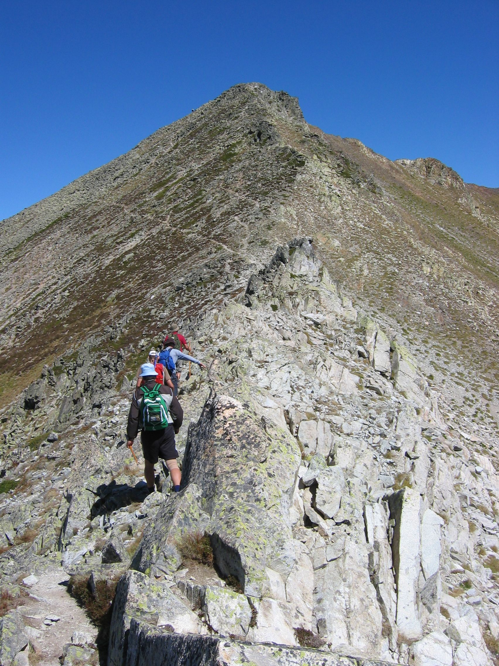 Three Provinces Peak (Palencia, León, Cantabria)